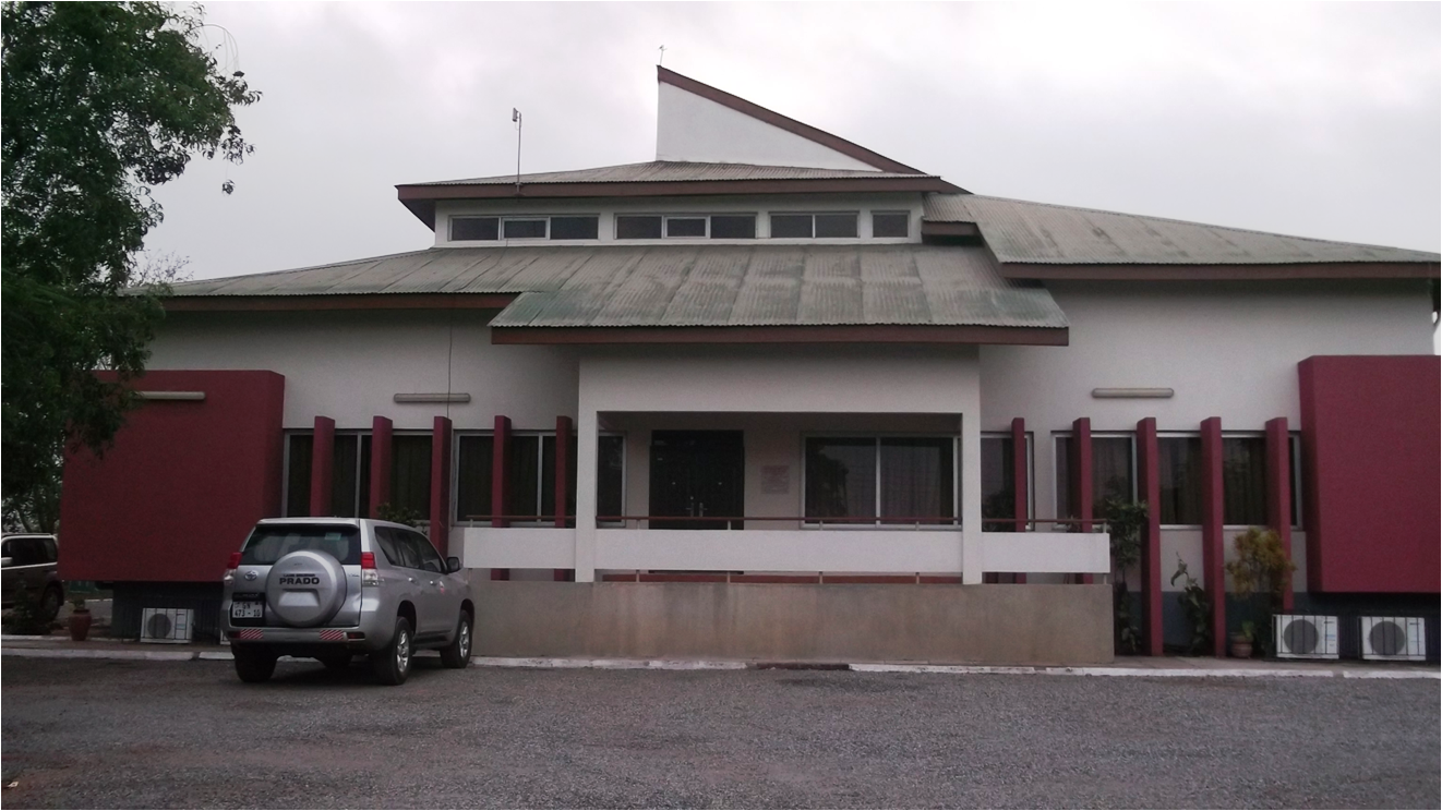 EPA Training School at Amasaman in Ga West District